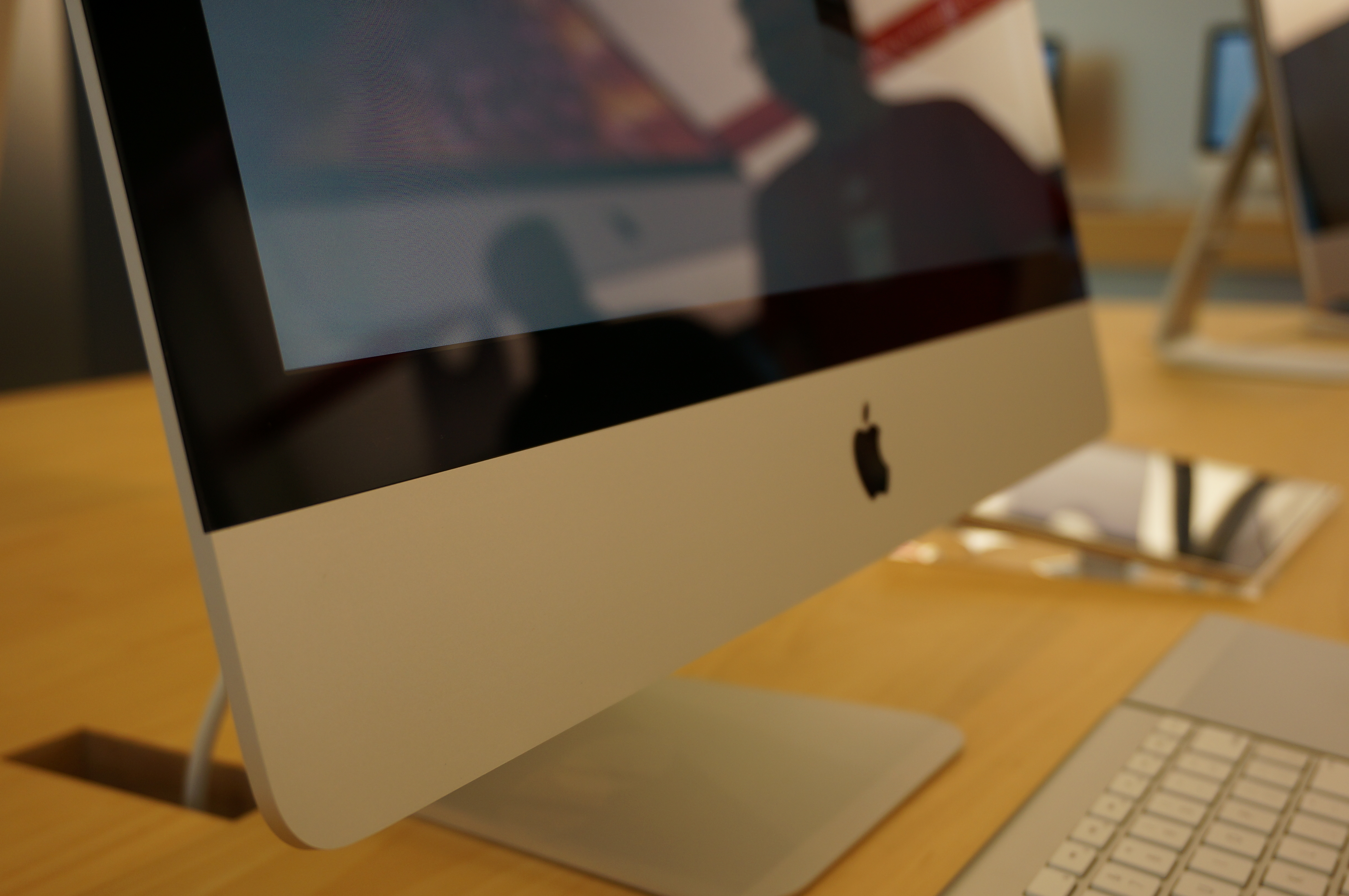 Edge of a IMac_(Intel-based)#4th_generation:_Slim_Unibody_iMac4th generation Slim Unibody iMac desktop computer.